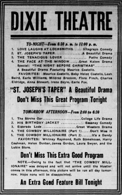 Advertisement for silent films playing at the Dixie Theatre in Bryan Texas on March 28, 1913.